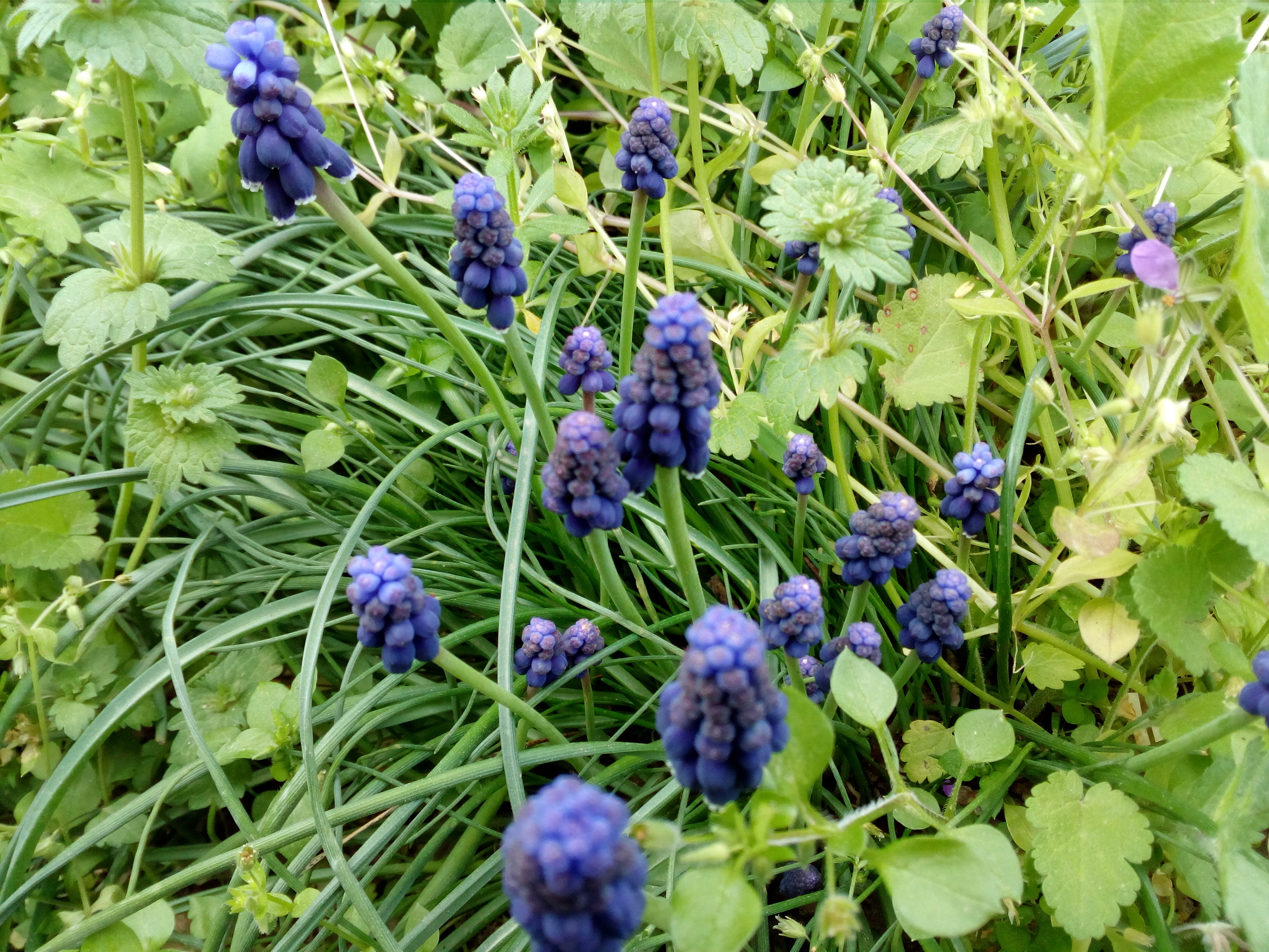 Muscari